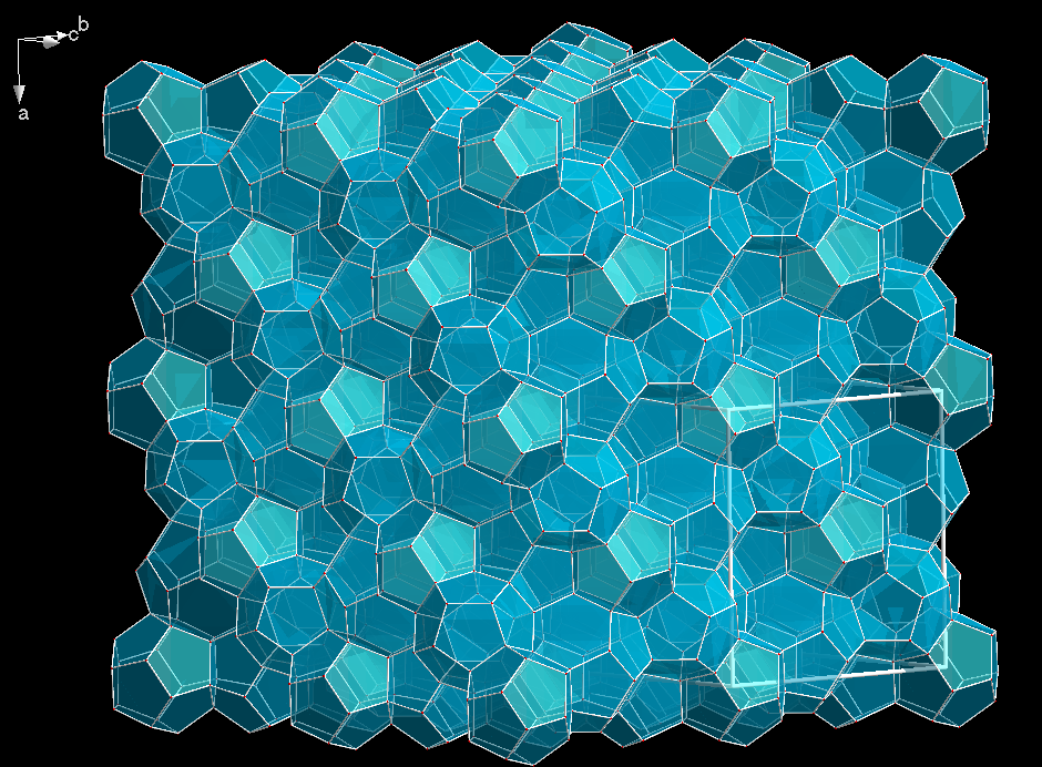 Ice XVI. White edges mark the unit cell (~17 Å).